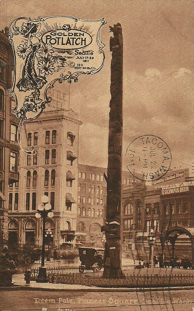 Totem Pole, Pioneer Square, Golden Potlatch Seattle, Washington, July 17-21 1911